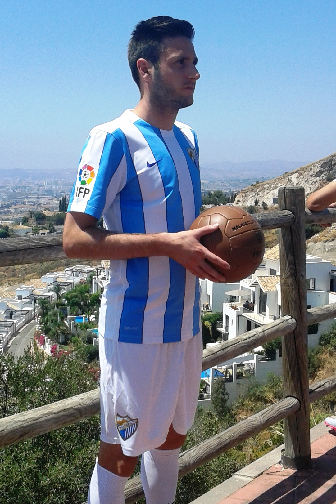 The Croatian Malaga CF footballer Duje Čop in Benalmadena, Spain.